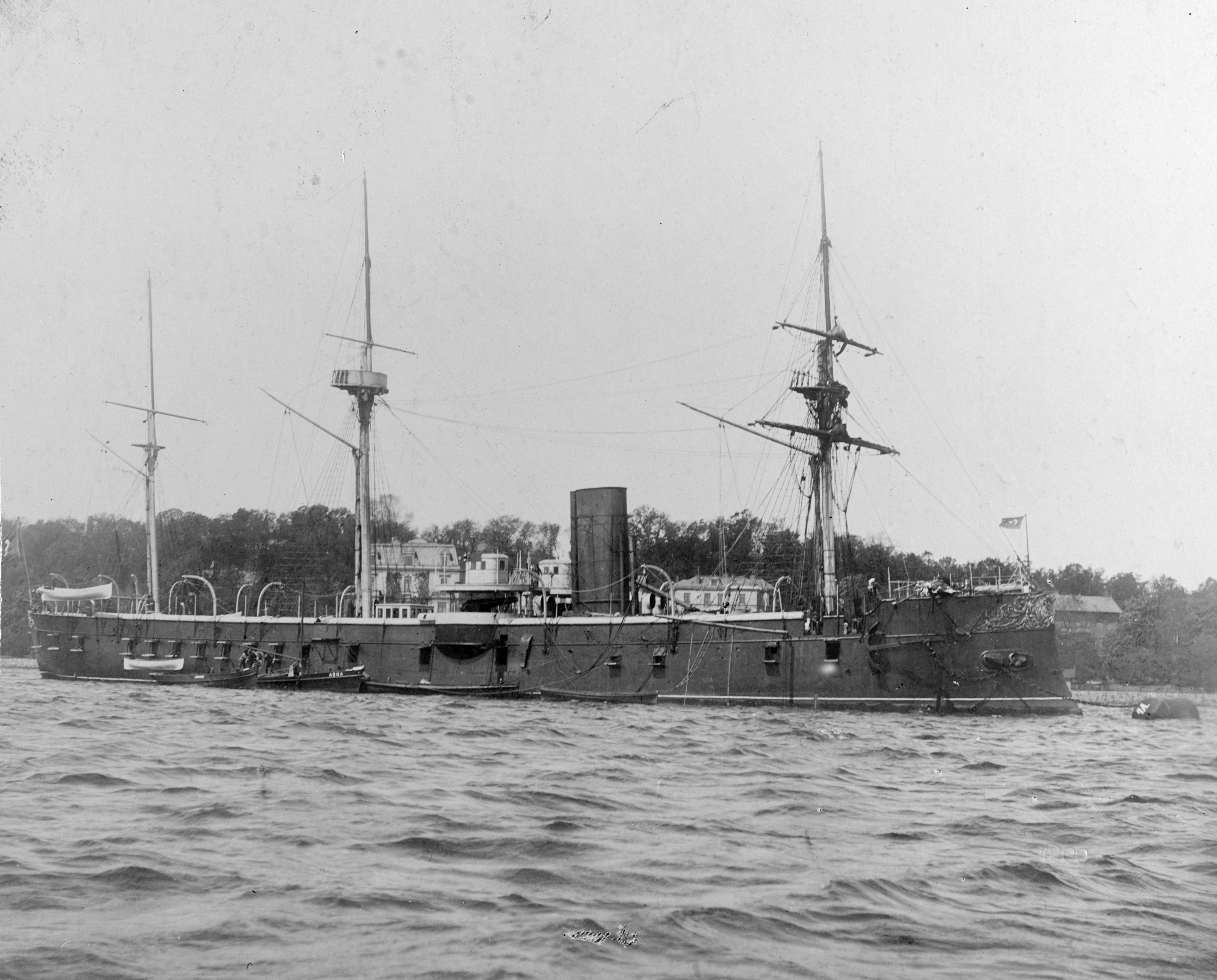 Title: ASSAR-I-TEWFIK Turkish Coast Defense Battleship, 1867 Caption: ASSAR-I-TEWFIK Turkish Coast Defense Battleship, 1867.